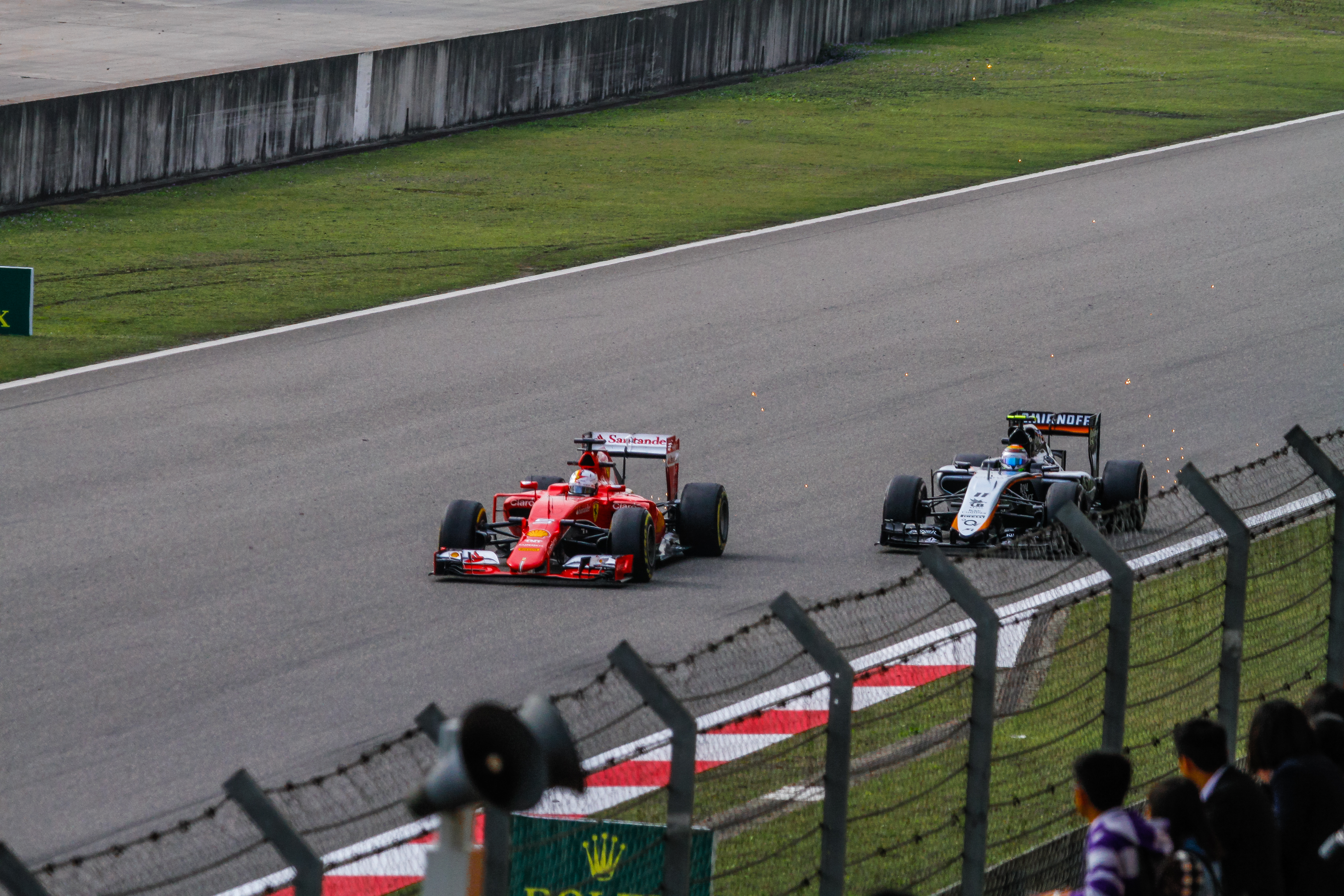 Sergio Perez and Sebastian Vettel at 2015 Chinese Grand Prix